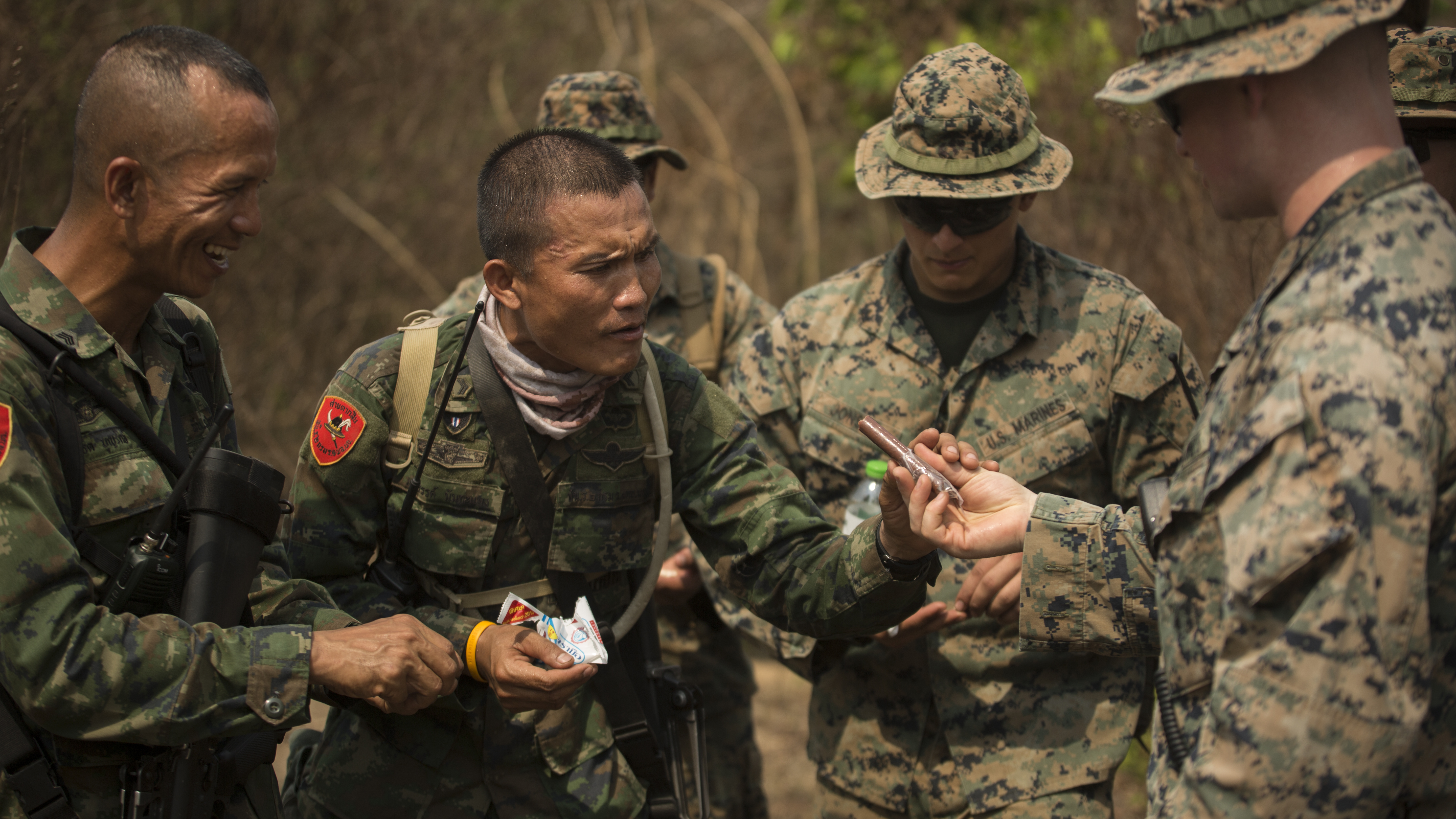 U.S. Marine 1st Lt. Mark Caldwell shares his meal ready to eat with a Royal Thai Marine during exercise Cobra Gold 2020 in Chantaburi, Kingdom of Thailand, March 1, 2020. Caldwell, a native of Lookout Mountain, Tenn., is the company executive officer for Alpha Company, Battalion Landing Team, 1st Battalion, 5th Marine Regiment. Exercise Cobra Gold 20 is the largest theater security cooperation exercise in the Indo-Pacific region and is an integral part of the U.S. commitment to strengthen engagement in the region. (U.S. Marine Corps photo by Staff Sgt. Jordan E. Gilbert)